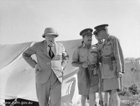 AWM Caption: "WESTERN DESERT, EGYPT. 1942-08-05. COMPLETE WITH CIGAR, MR. WINSTON CHURCHILL, PRIME MINISTER OF GREAT BRITAIN, WITH LIEUTENANT-GENERAL SIR LESLIE MORSHEAD, GENERAL-OFFICER-COMMANDING A.I.F. (ME) (CENTRE), GENERAL SIR CLAUDE AUCHINLECK, COMMANDER-IN-CHIEF, MIDDLE EAST, (RIGHT) AND LIEUTENANT-GENERAL W.H.C. RAMSDEN, COMMANDING XXX CORPS, (BEHIND), AT 9TH AUSTRALIAN DIVISION HEADQUARTERS DURING CHURCHILL'S VISIT TO AUSTRALIAN TROOPS IN THE FORWARD AREA OF THE EL ALAMEIN FRONT".